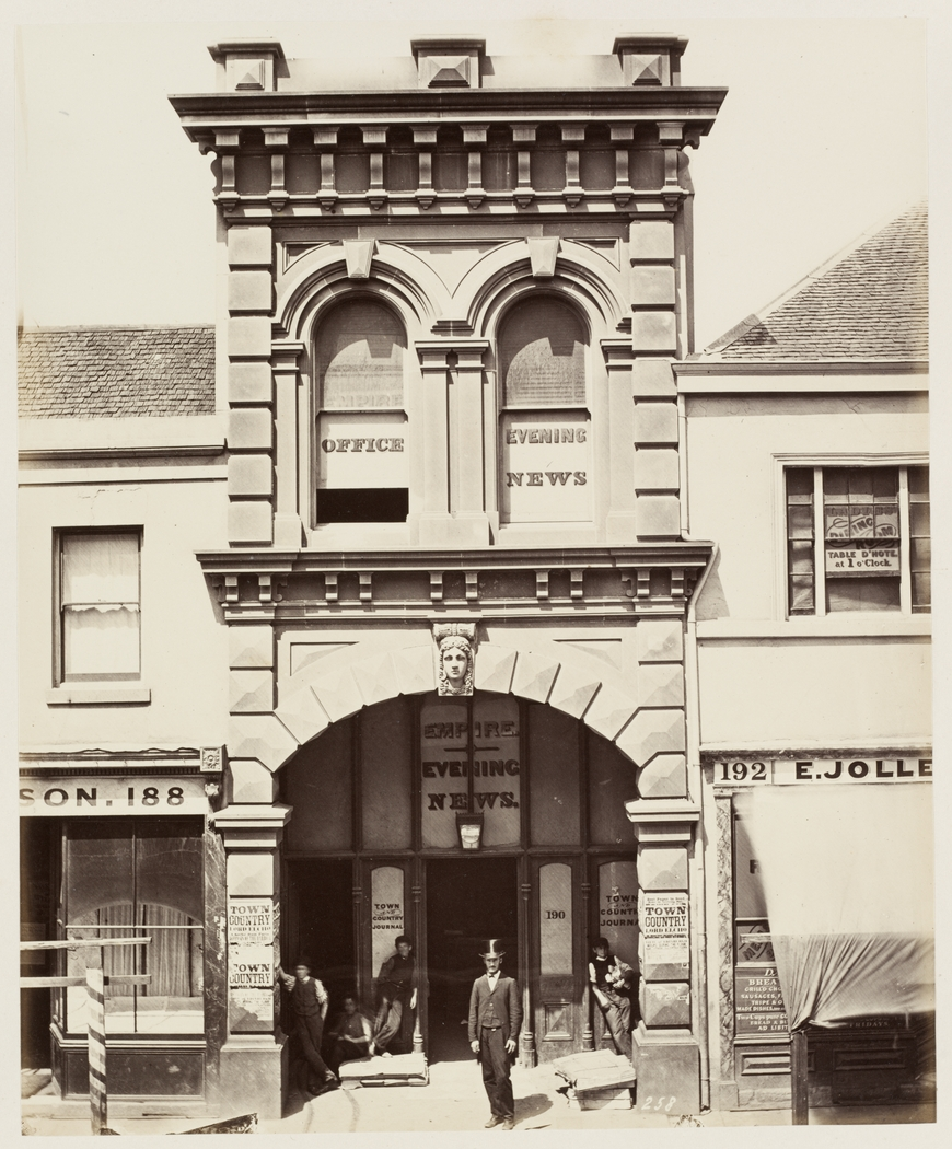 45. "Empire" Office SH 524